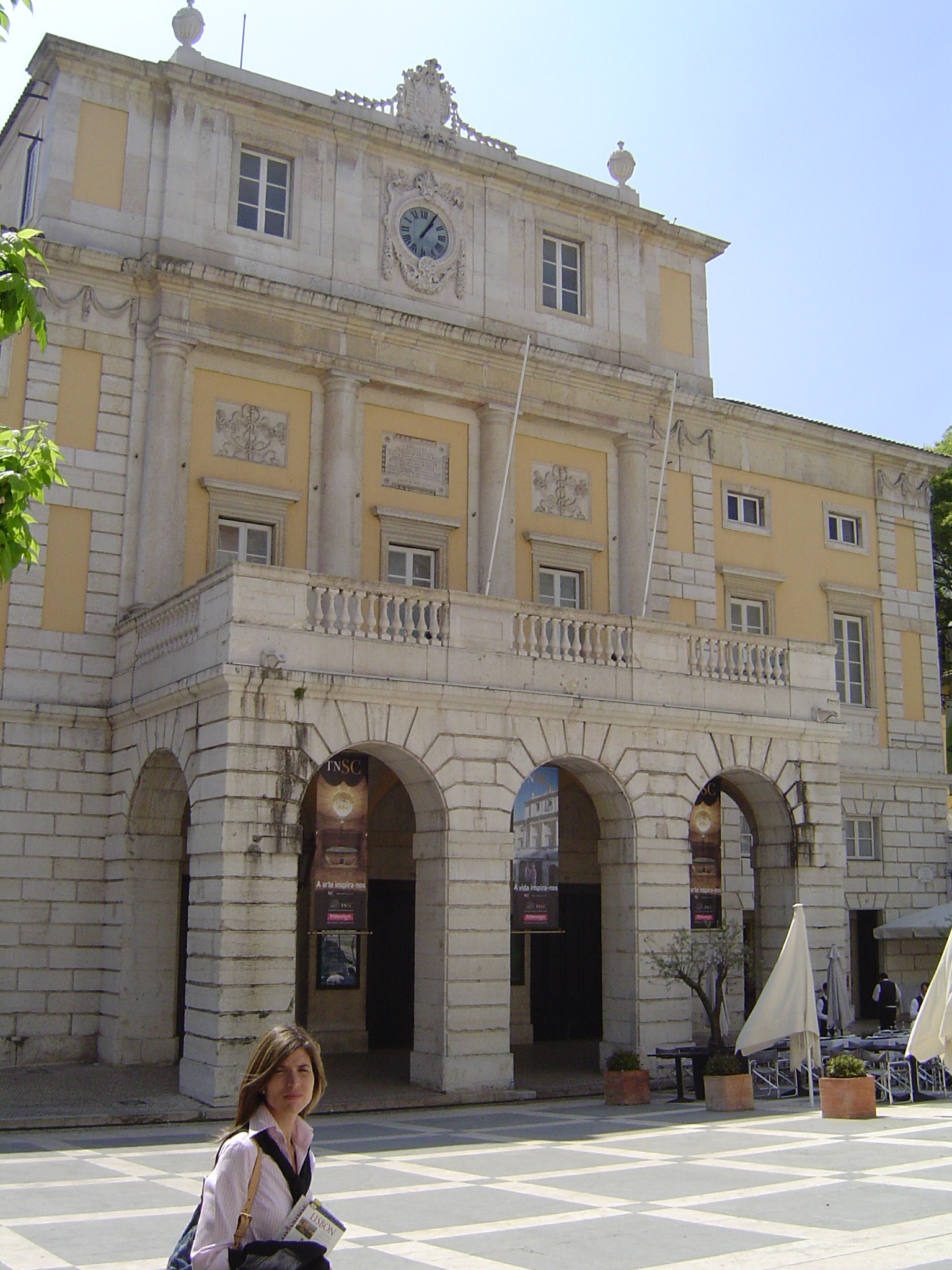 View of Teatro Nacional de São Carlos, in Lisbon, Portugal.